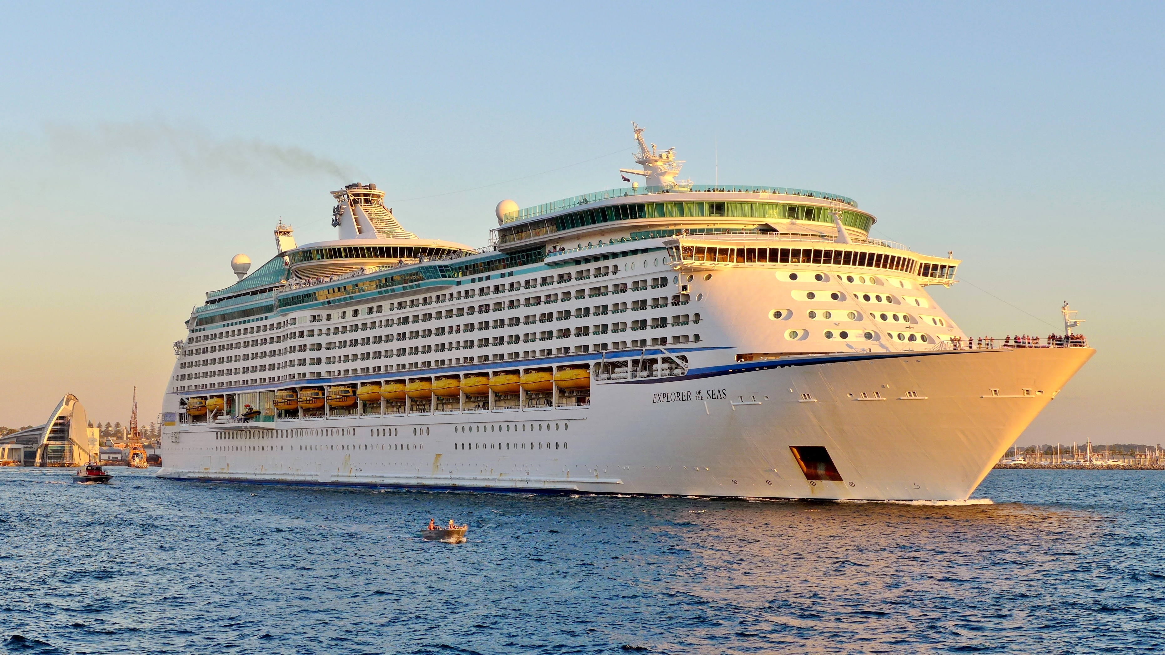 Cruise ship Explorer of the Seas departing from Fremantle Harbour, Western Australia, on her maiden cruise as an Australian-based ship, to Sydney via New Zealand.